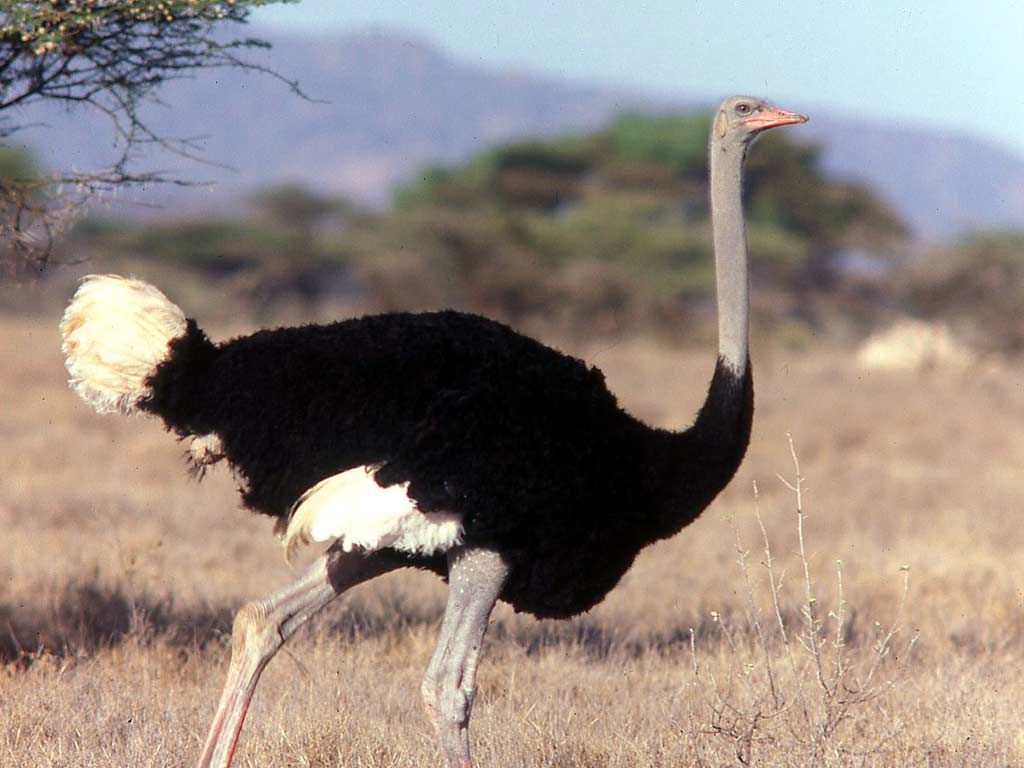 Somali ostrich male, Samburu, Kenya